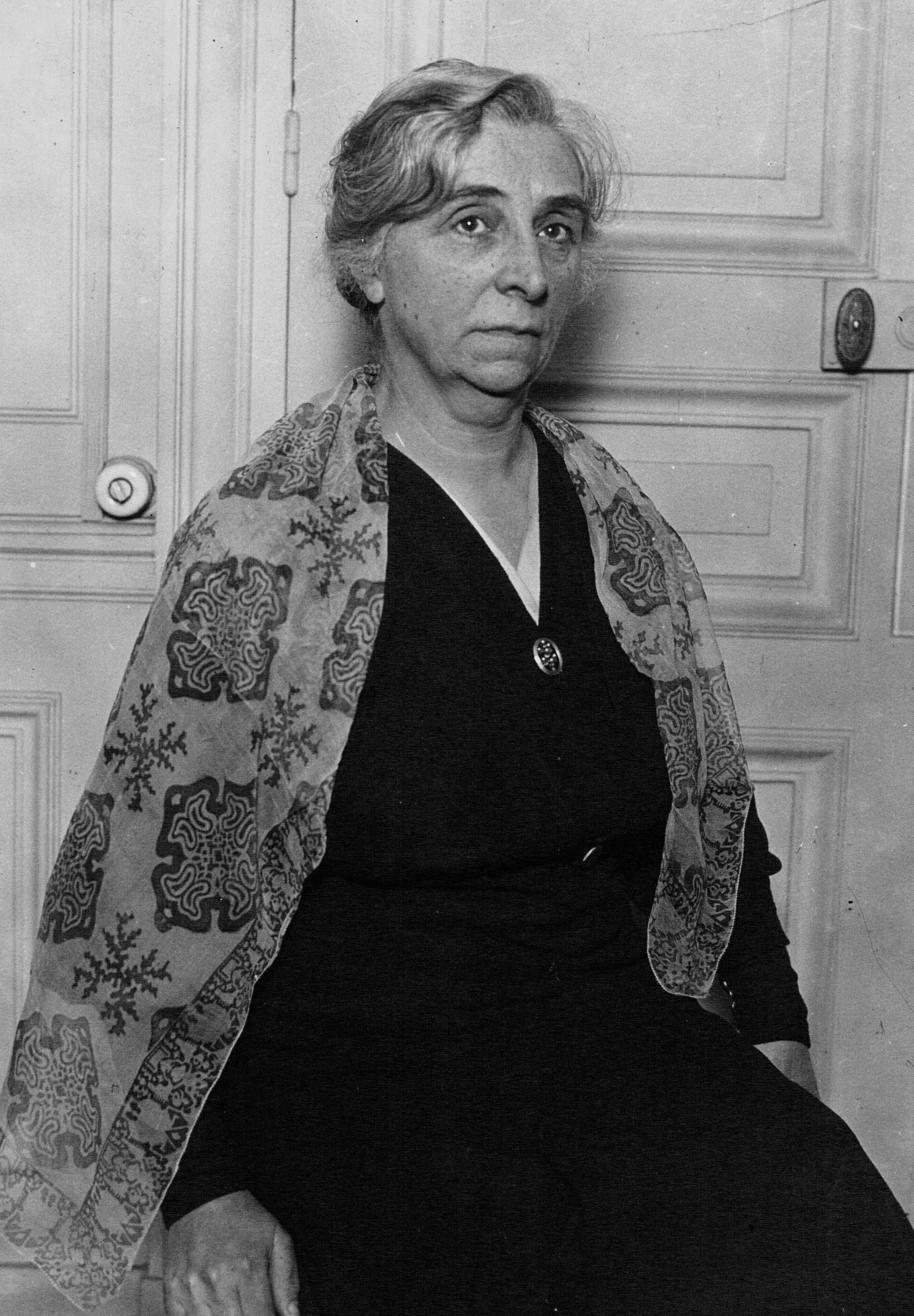 French lawyer and feminist Maria Vérone (1874-1938).